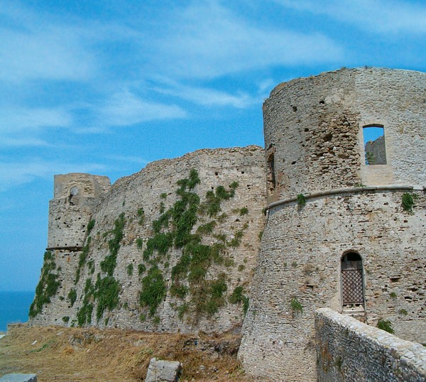 Castello di Ortona Picture taken by user:Idéfix, august 2003